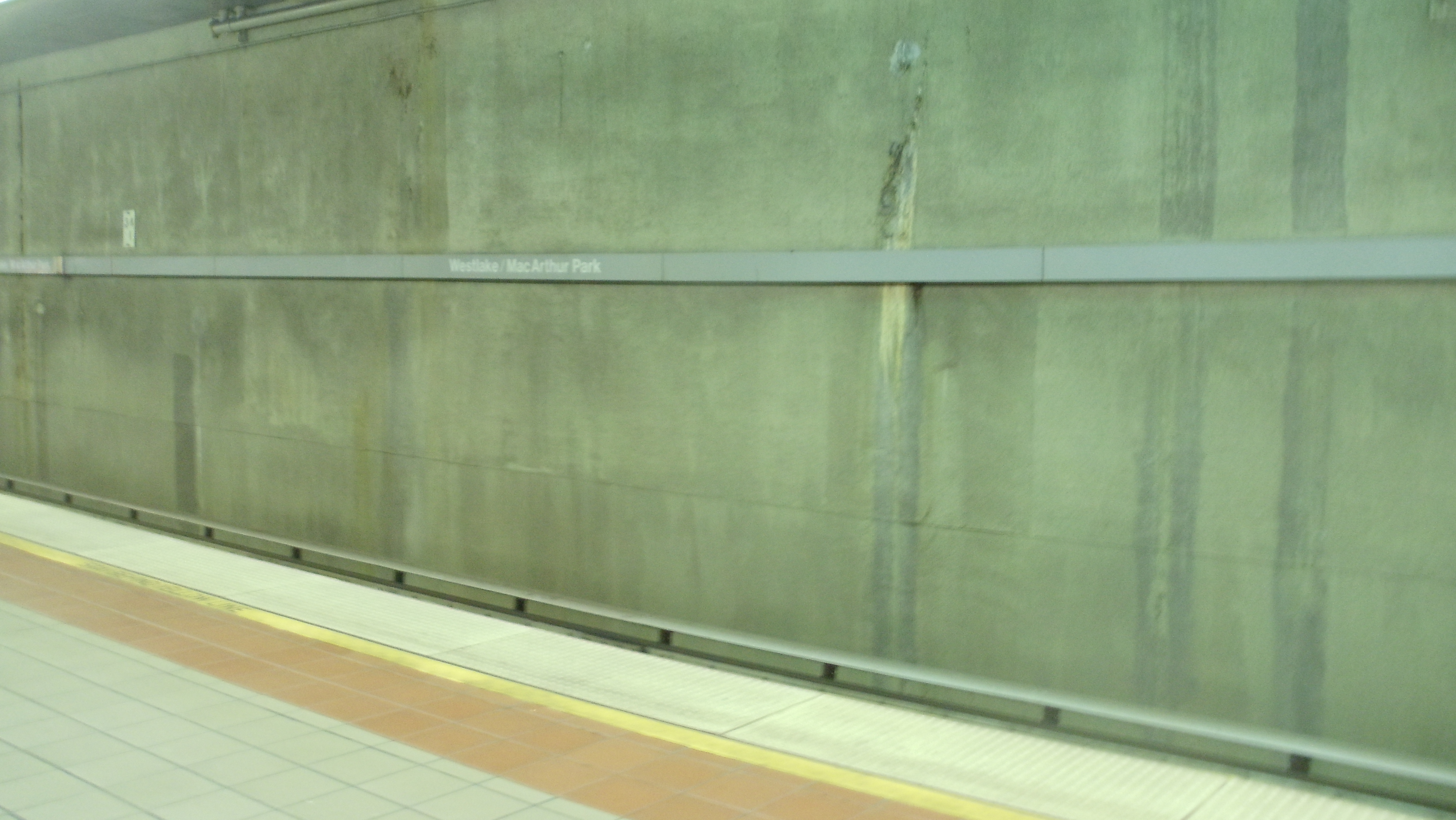 Westlake/Mac Arthur Park Metro Red & Purple Lines station platform.